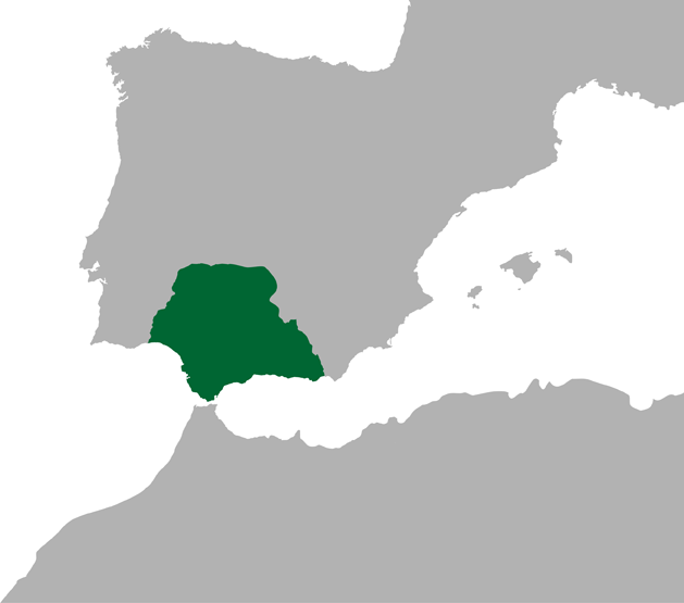 This map shows the Baetica´s territory in the Roman Empire.